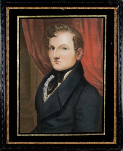 Gosling Posthumus (1800-1832), Dutch painter. Probably self-portrait. Collection Fries Museum, Leeuwarden (the Netherlands). On loan Raadhuis Dokkum 200X.